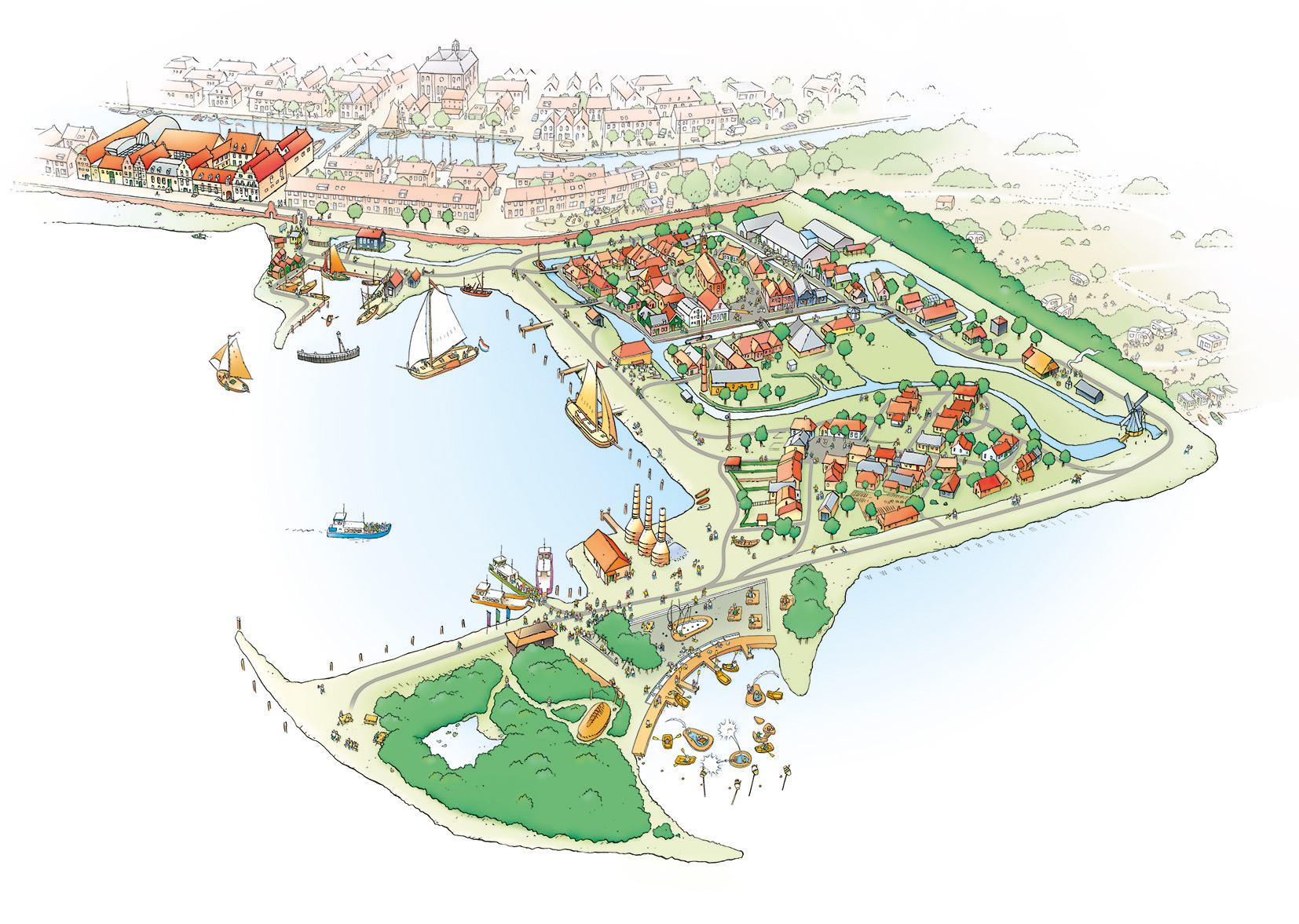 Plan of the Zuiderzeemuseum